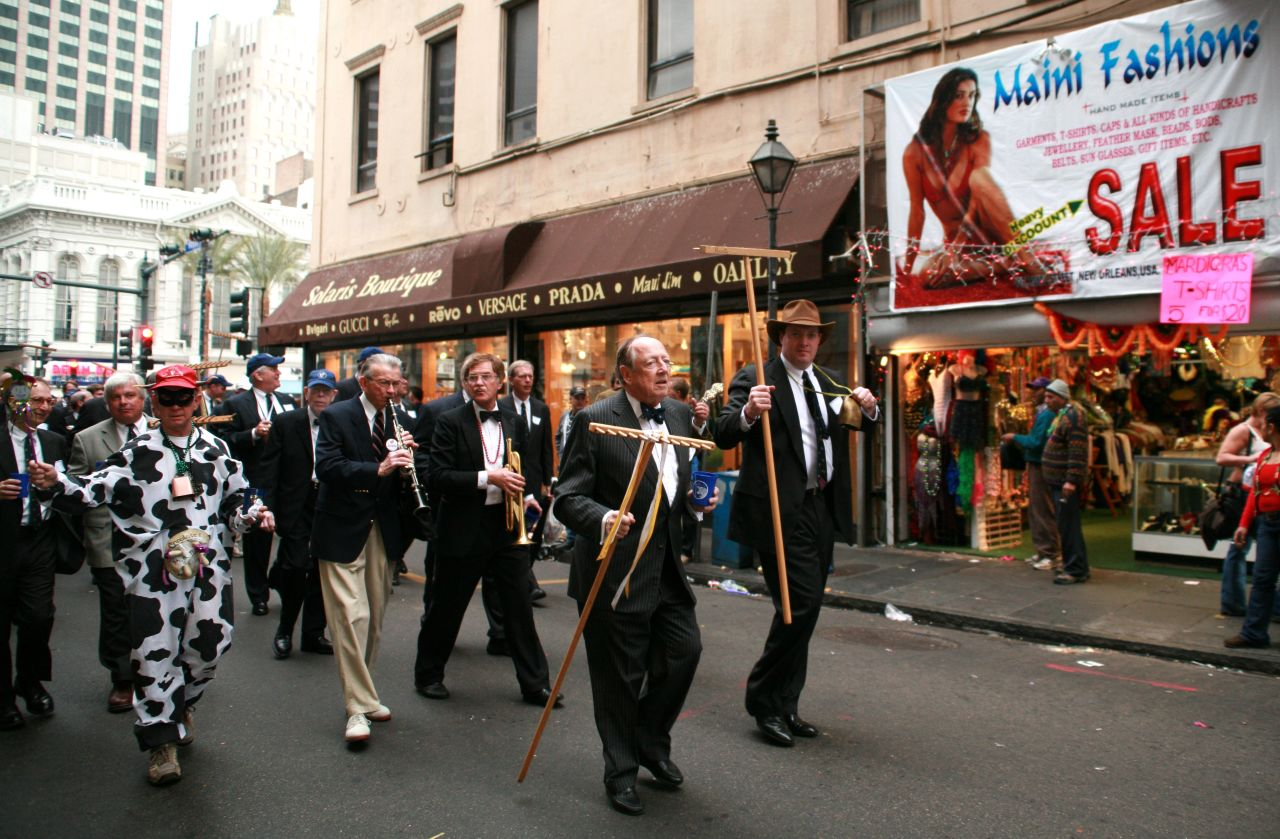 New Orleans Mardi Gras 2007: Paraders in French Quarter, Royal Street just down from Canal Street. I think this is the Cowbellion de Rakin Society, an offshoot of the (no longer parading) Mystick Krewe of Comus. Visible musicians look like Bris Jones, clarinet; Clive Wilson, trumpet. -- Infrogmation